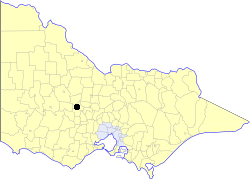 Location of the City of Maryborough within Victoria.